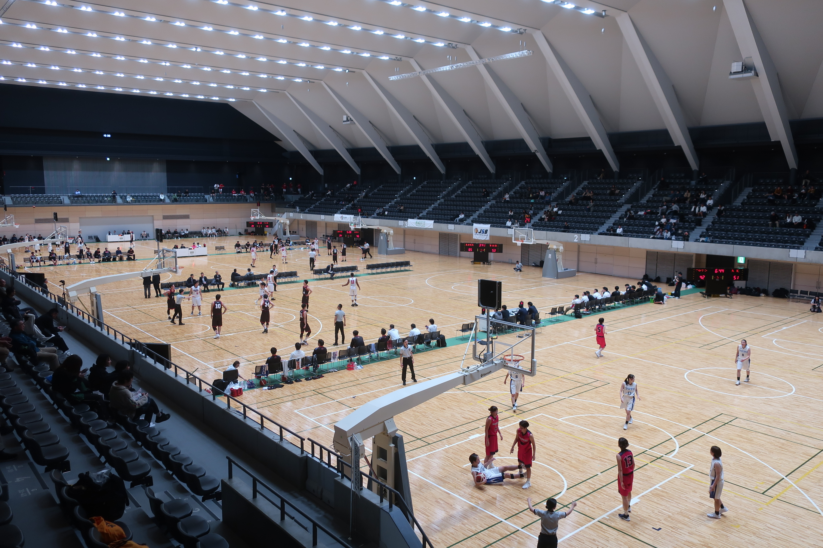 takasaki-arena